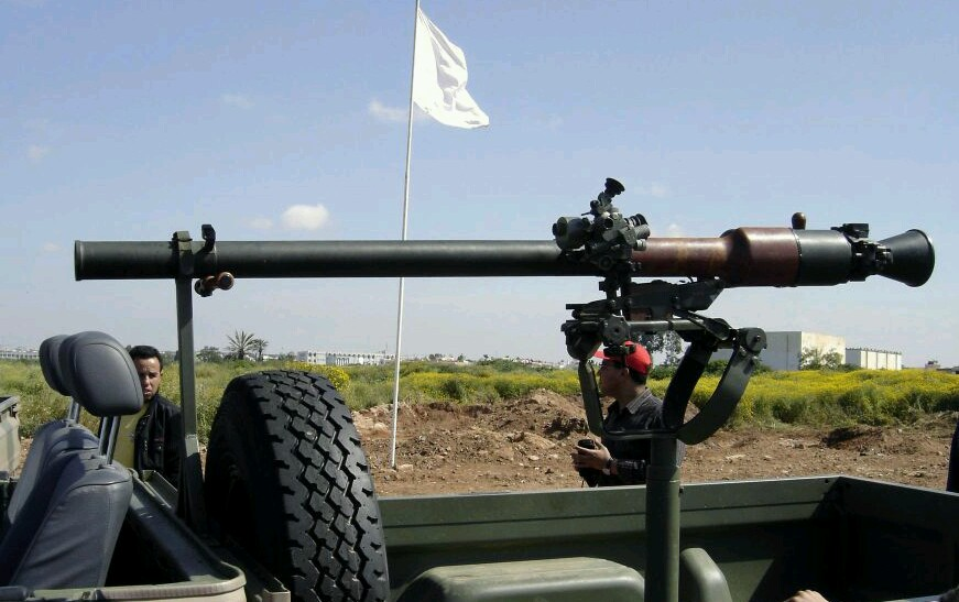 Libyan rebel spg 9